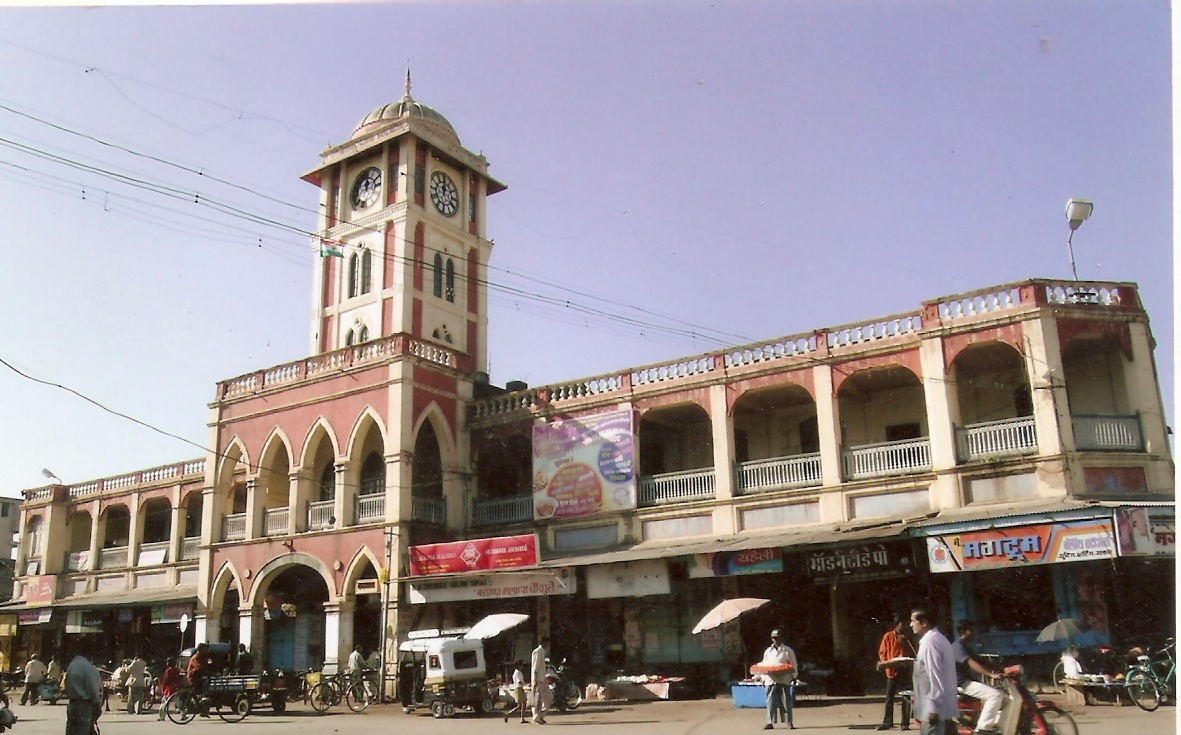 Laxmi Market Miraj Viewed from the north end